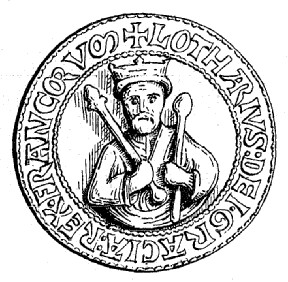 Lothair of France